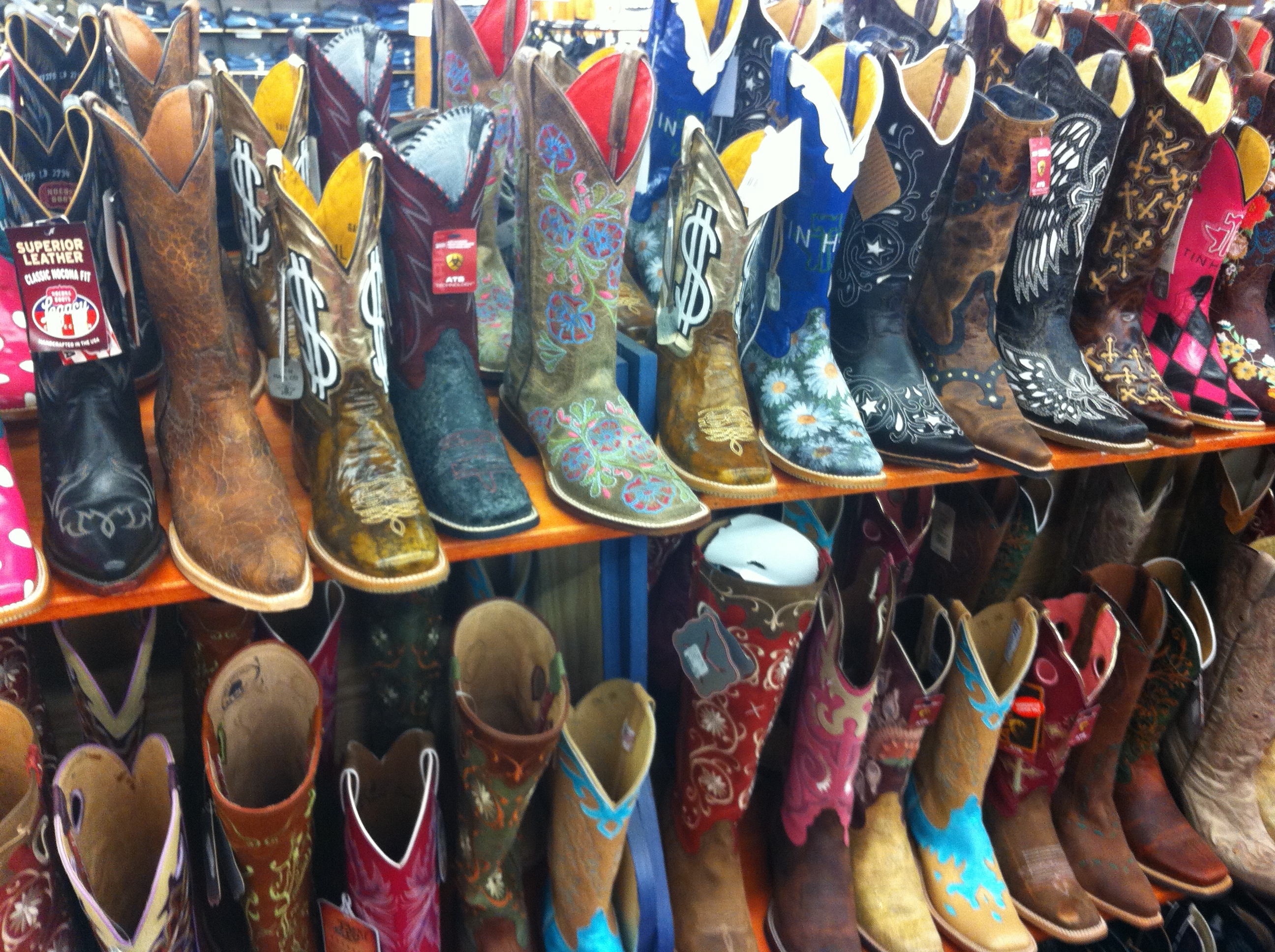 Women's boots on a display rack at Joe's Boot Shop in Clovis, New Mexico. Many of these are not meant to be worn while actually riding a horse, but worn to be fashionable while identifying with ranching culture.